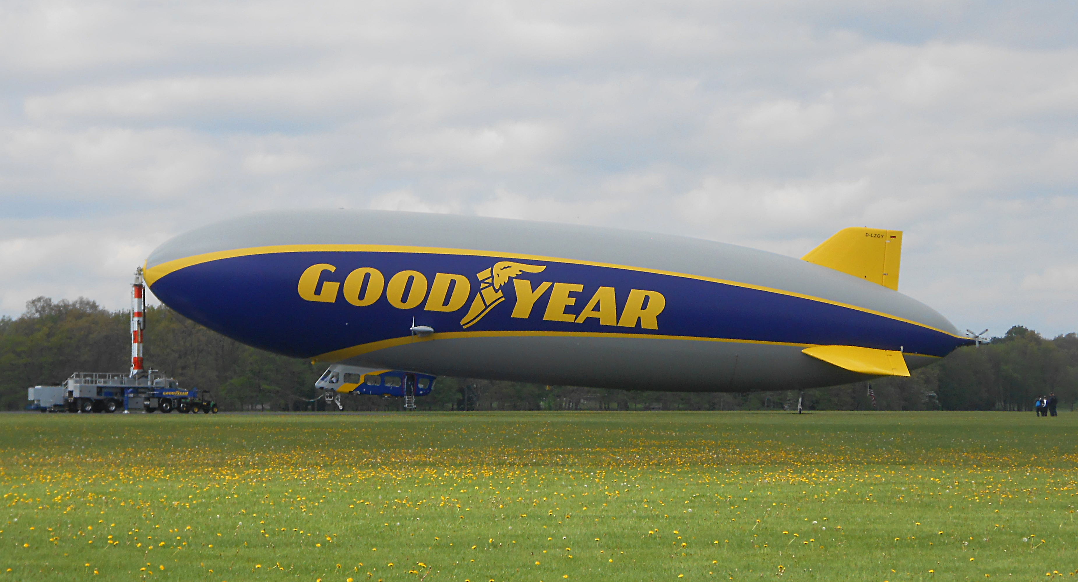 The New Goodyear Zeppelin NT at its mast at the Wingfoot Lake Hangar in Ohio